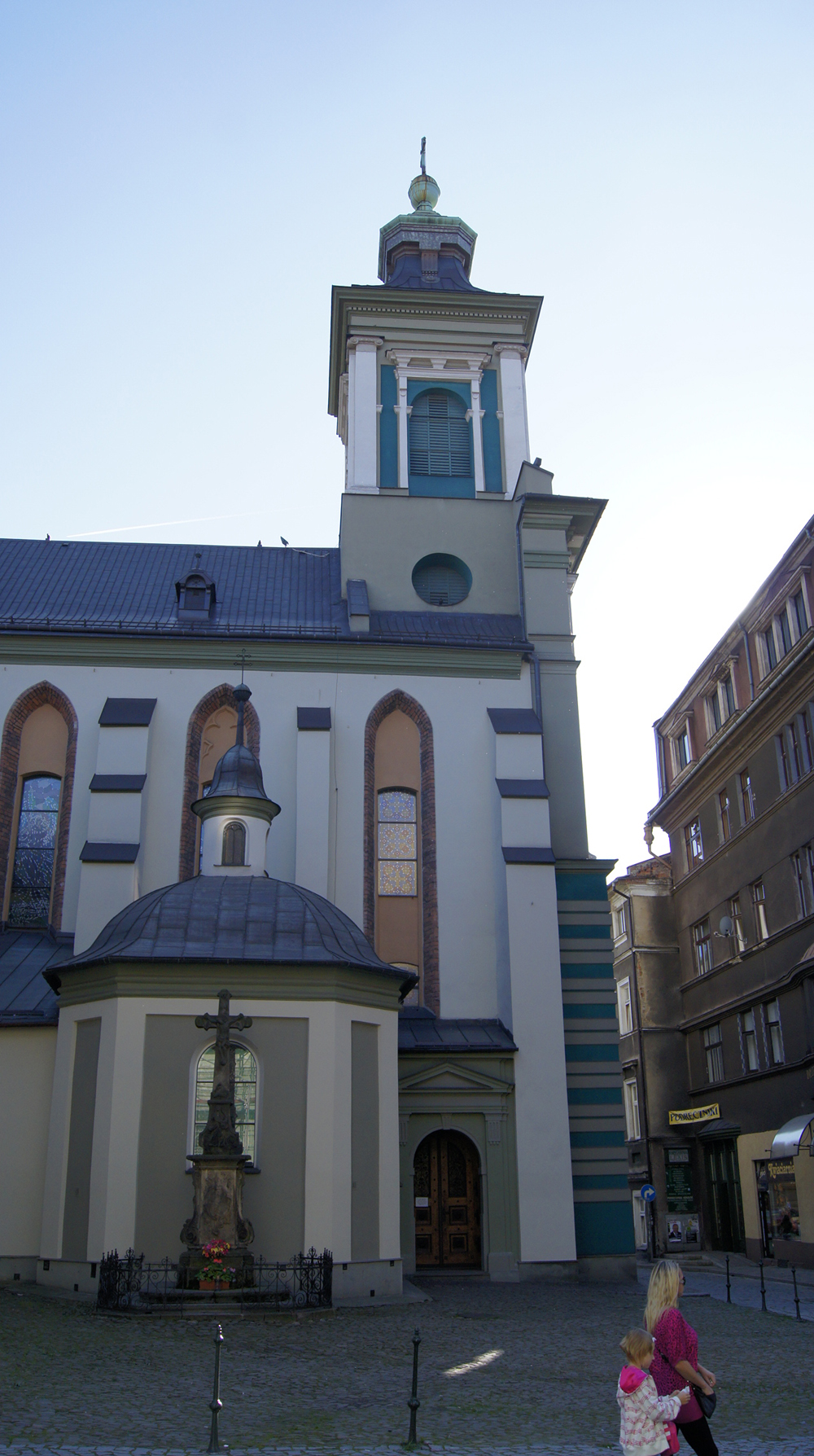 Church of Saint Mary Magdalene in Cieszyn.